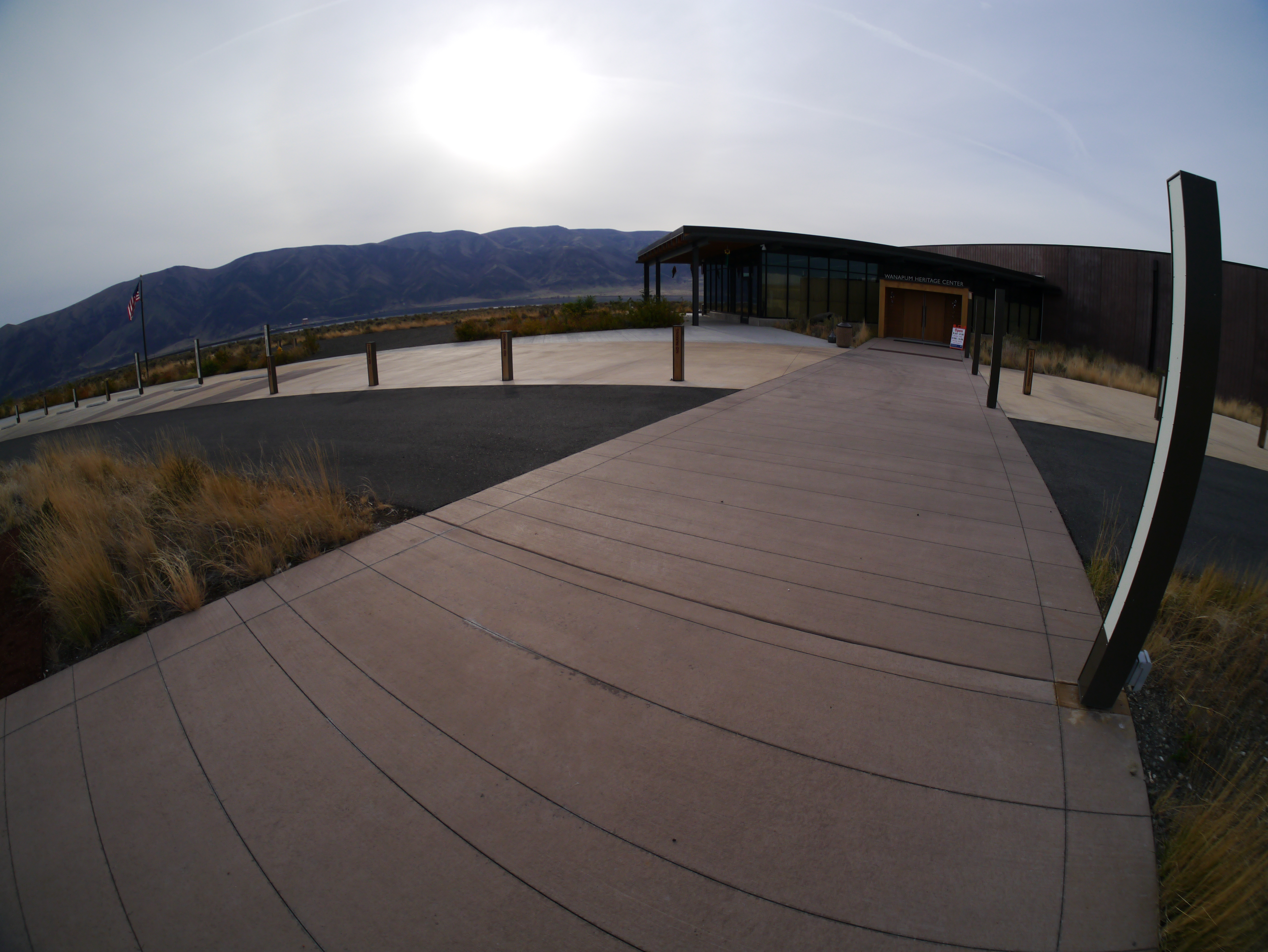 Wanapum Heritage Center on the Columbia River- they were among the last of the "wild" Indians only placed into permanent settlements after the hydroelectric dams were built in 1953 on the Columbia River, forever changing their traditional lifestyle dependent upon salmon.